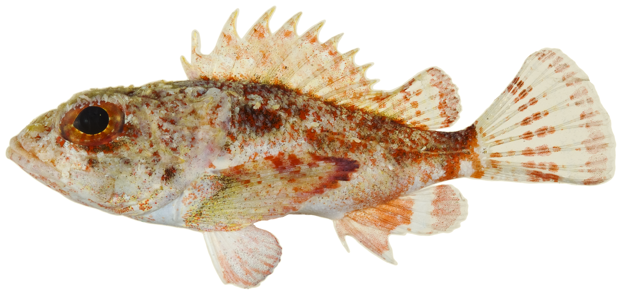 Scorpaena inermis Cuvier, 1829 —mushroom scorpionfish, 40.1 mm SL, red morph. Photo by JT Williams.